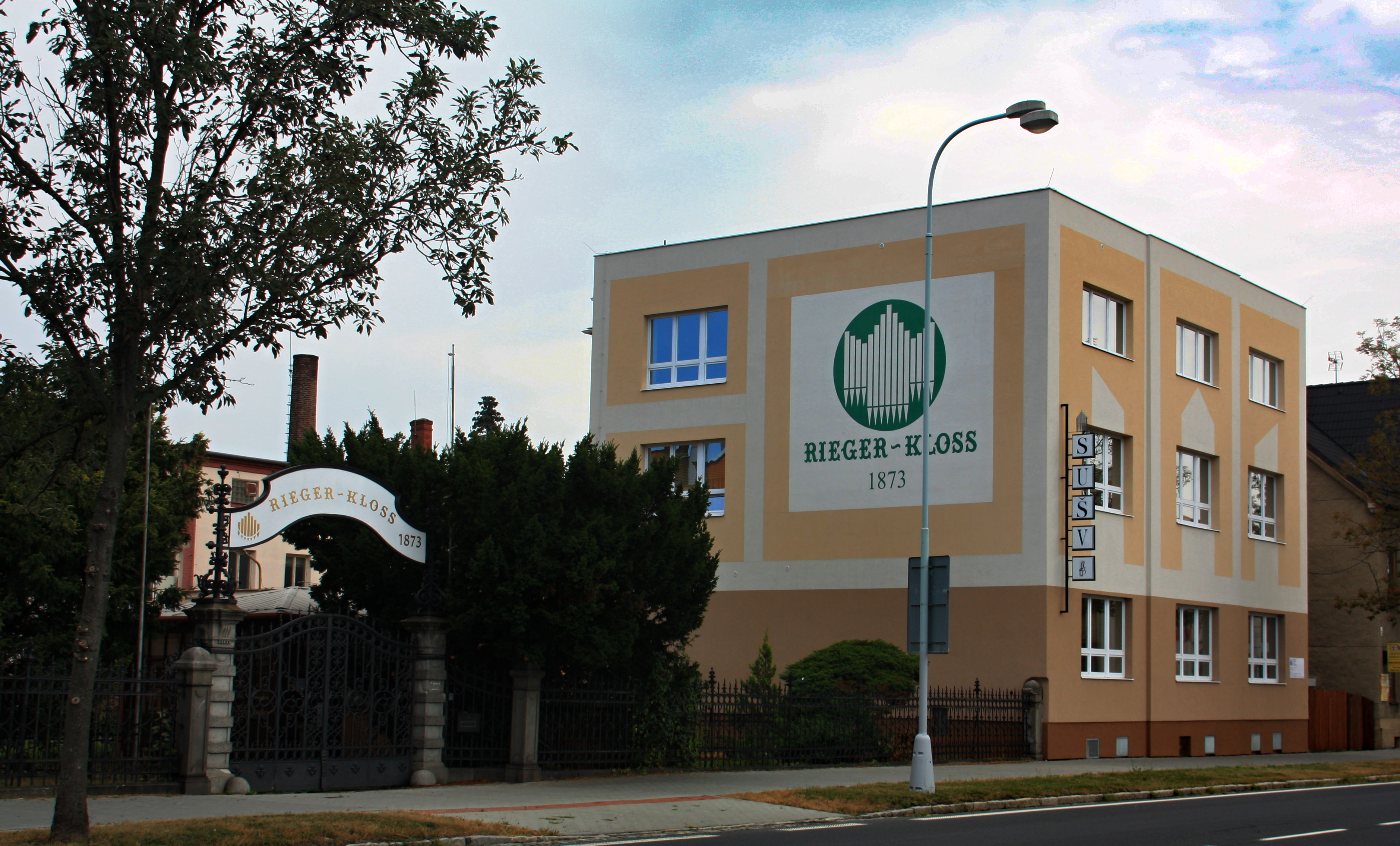 Fence of the Rieger-Kloss company in Krnov, Bruntál District, Moravian-Silesian Region, Czech Republic